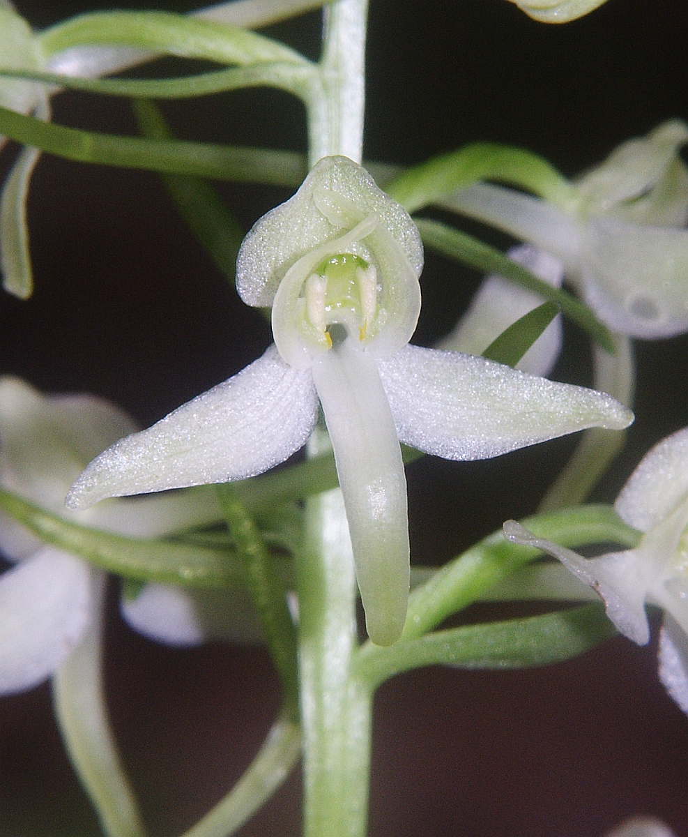 Platanthera × hybrida, Taubergrund - Germany(P. bifolia × chlorantha)